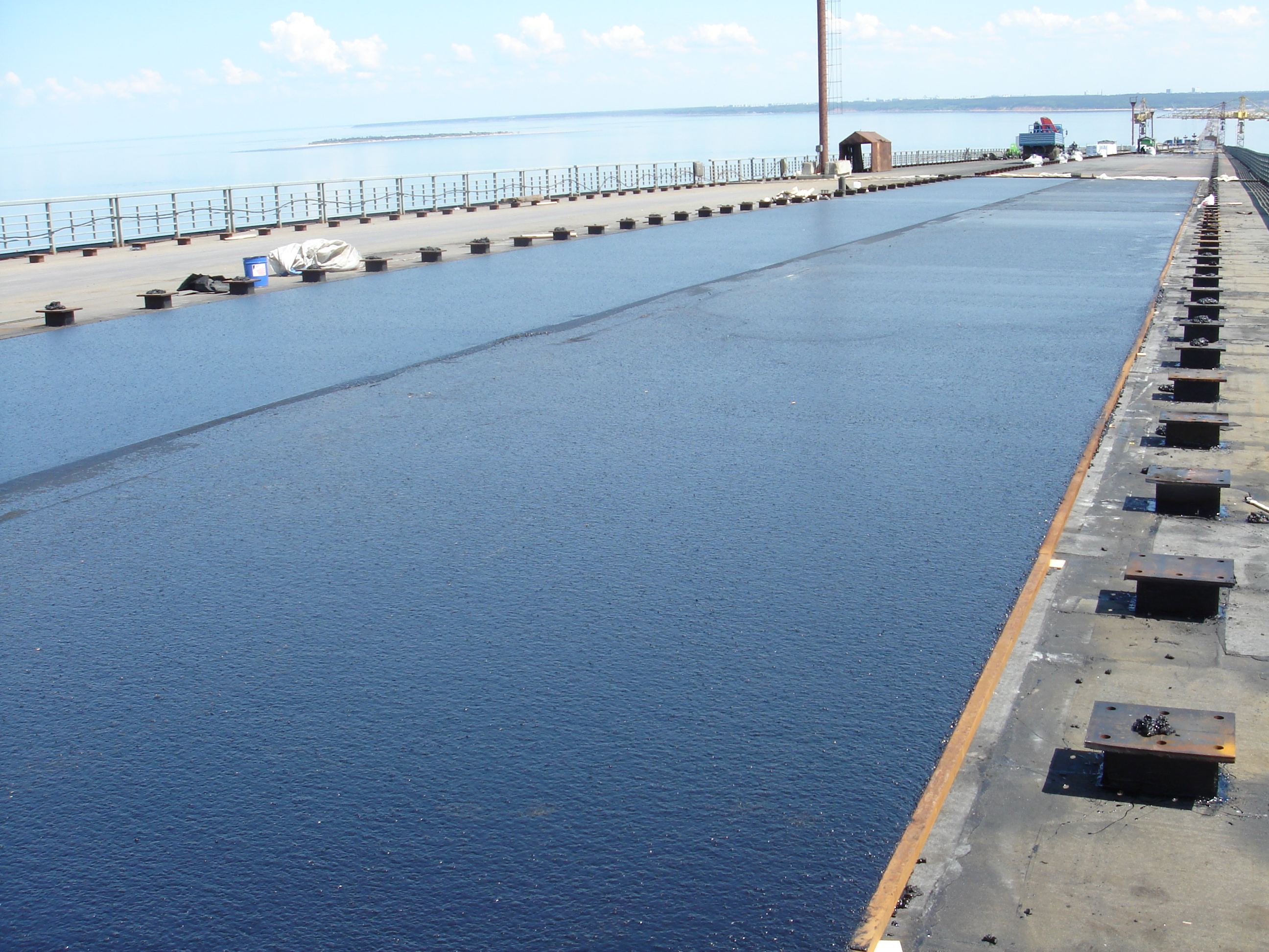 Newly laid asphalt (base level) on a bridge over the Volga in Ulyanovsk. 50 mm thick, 5 km long ;).